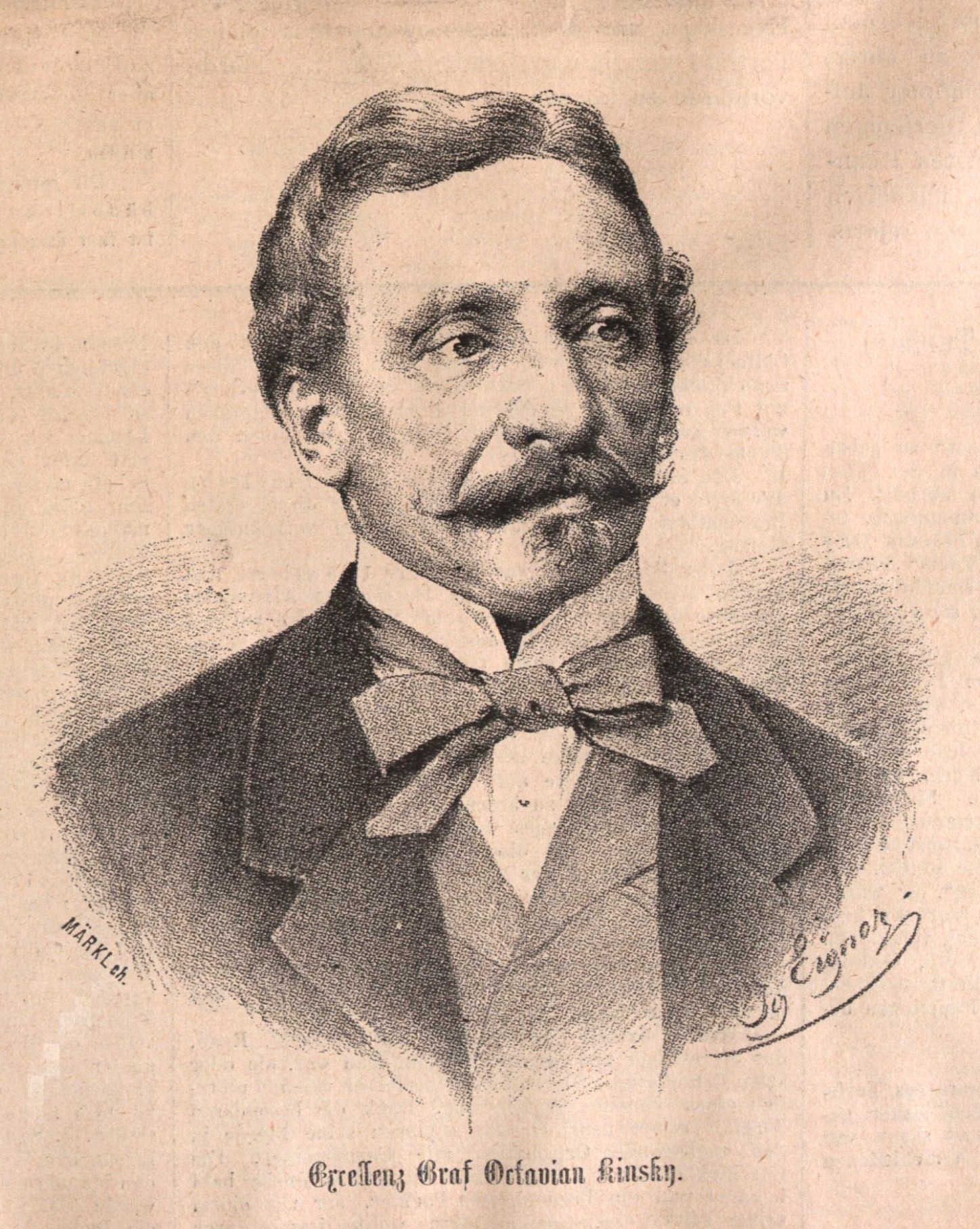 Portrait of Octavian Joseph Graf Kinsky (1813-1896), Czech nobleman and horse-breeder.